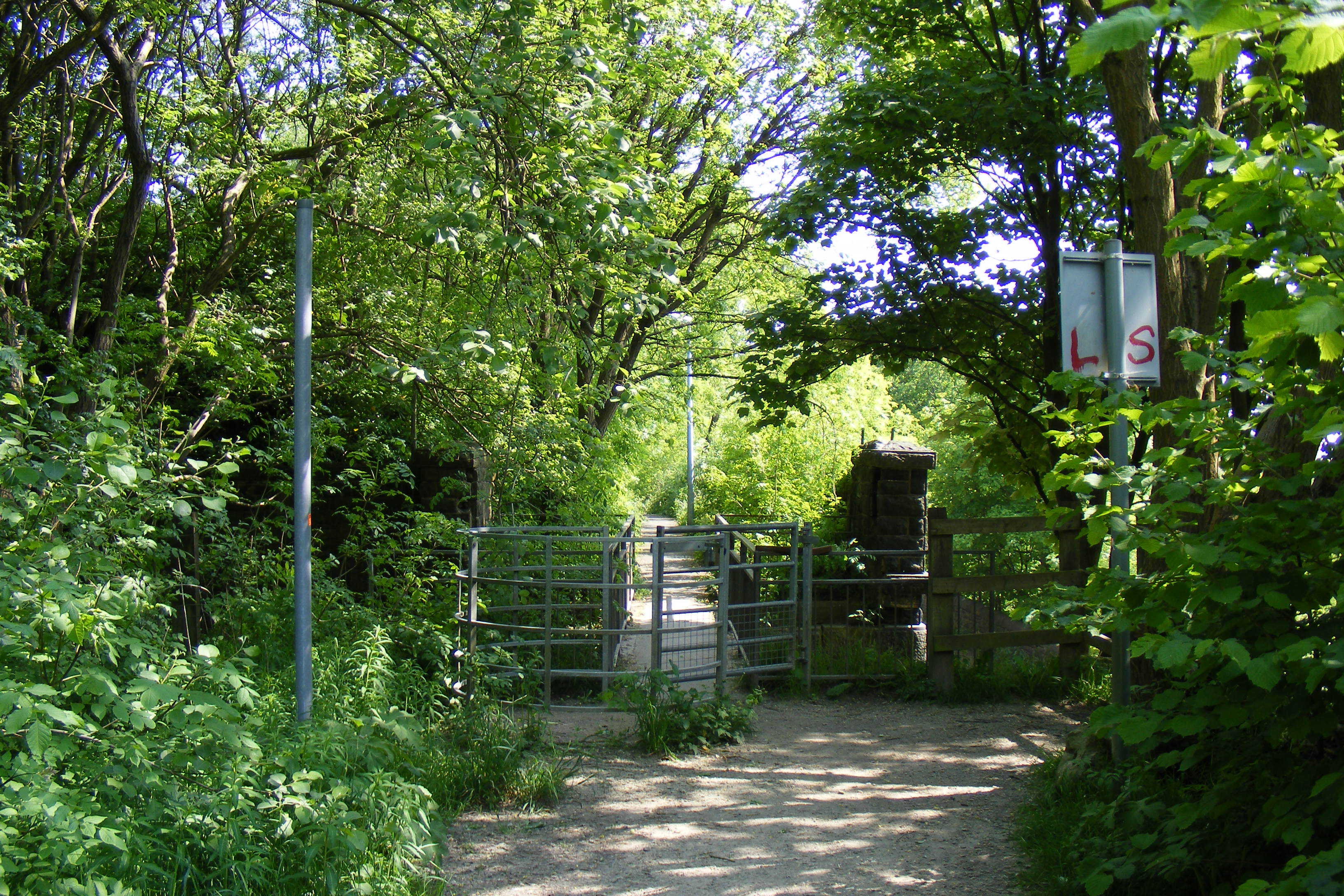 The entrance to Shawclough and Healey railway station, in Rochdale, Greater Manchester, England